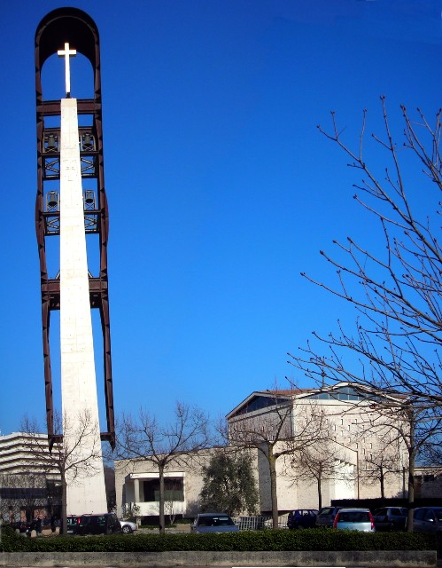 The Church of San Bartolomeo in Ponte San Giovanni, Perugia, Umbria, Italy.